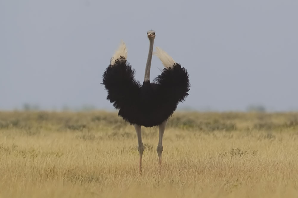 Ostrich in Etosha